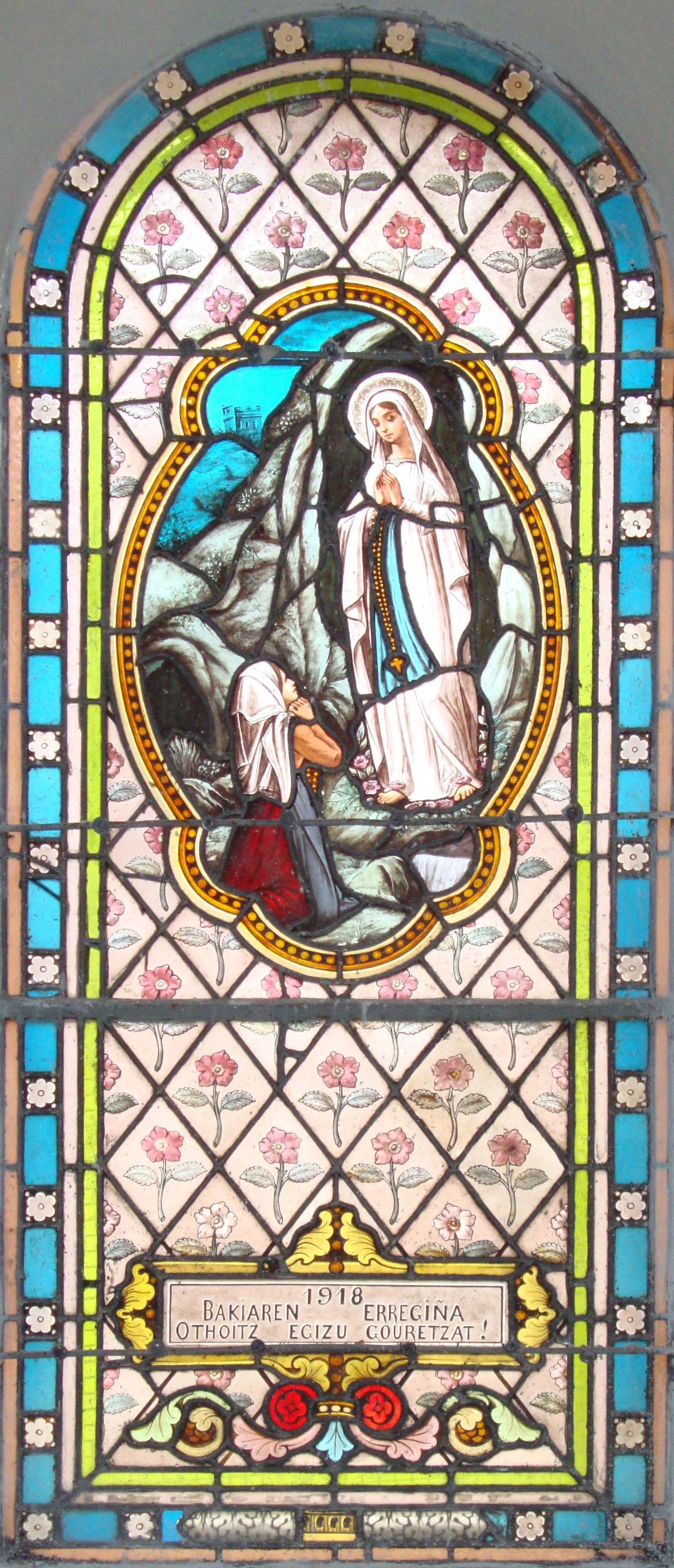 Camou (Camou-Cihigue, Pyr-Atl, Fr) stained glass window Ste Bernadette.